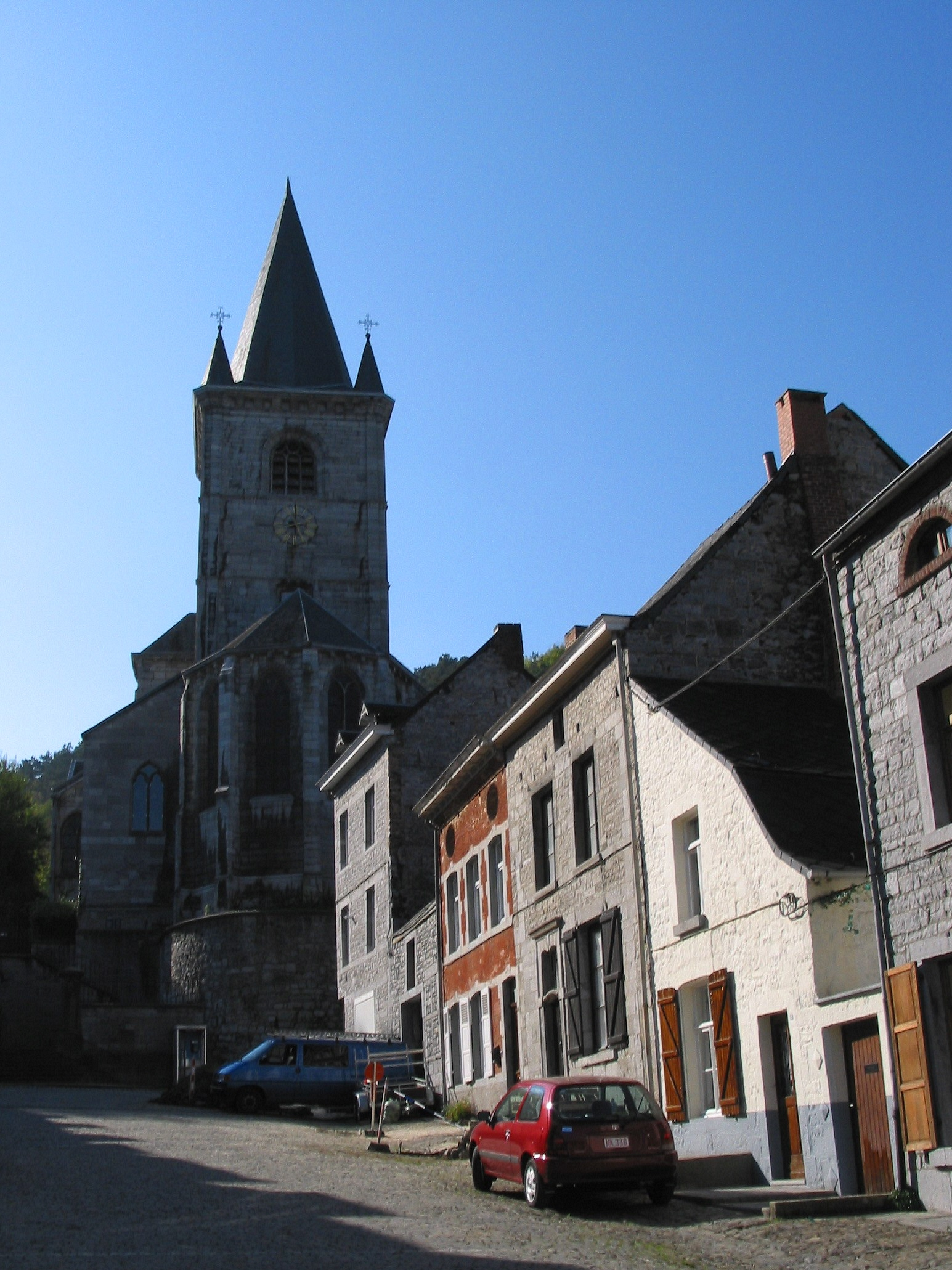 Bouvignes-sur-Meuse (Belgium) : the neighbourhood of the church of Saint Lambert (XIII-XXth centuries).